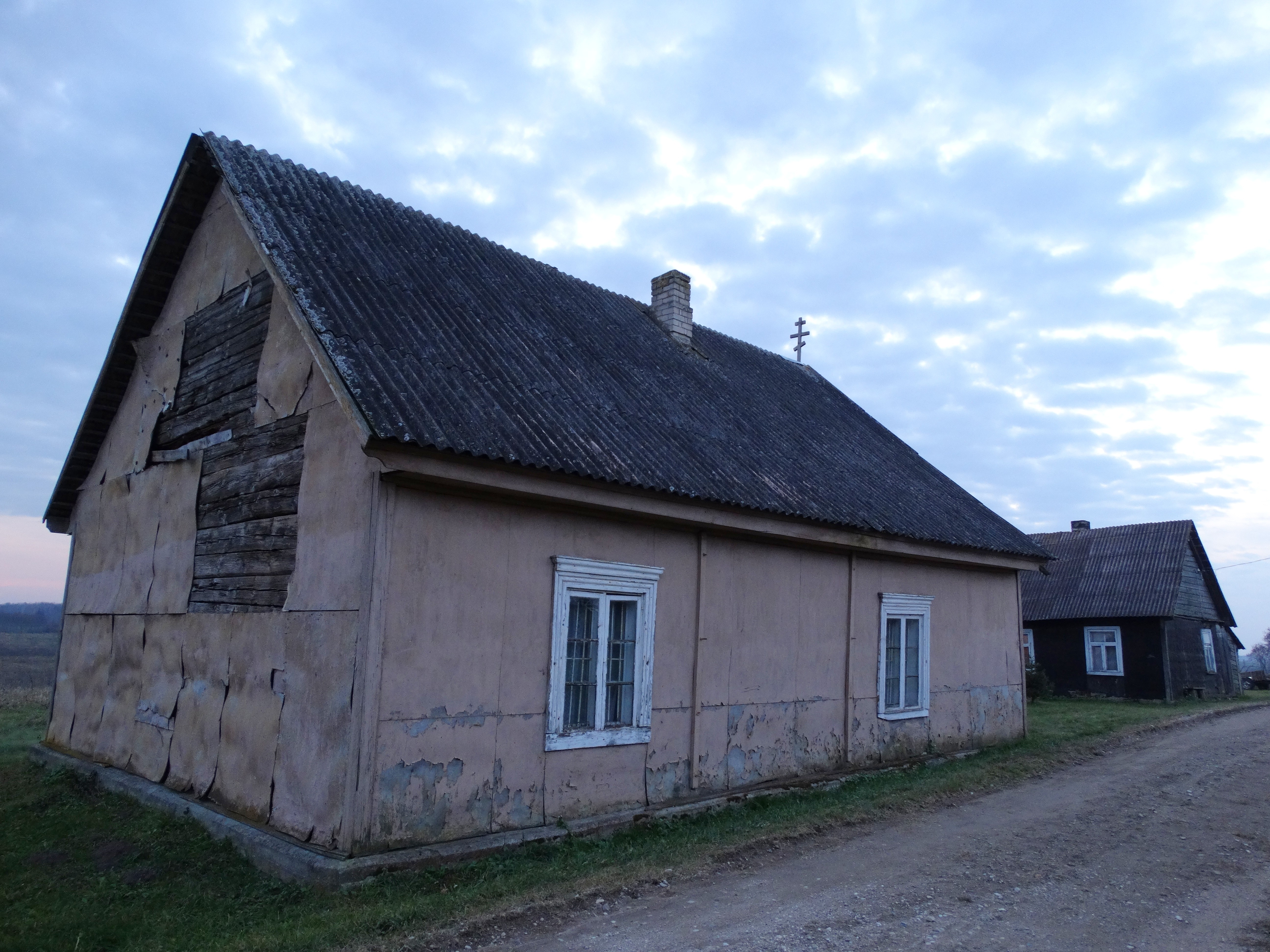 Orthodox Church of Old Believers in Kvedariškis, Biržai district, Lithuania